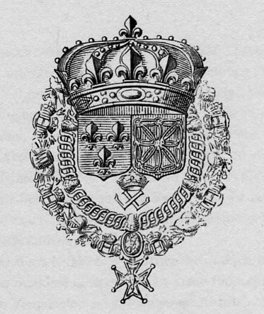 Coat of arms of France 1643-1715. It depicts a coat of arms of France (left) and Navarra (right)